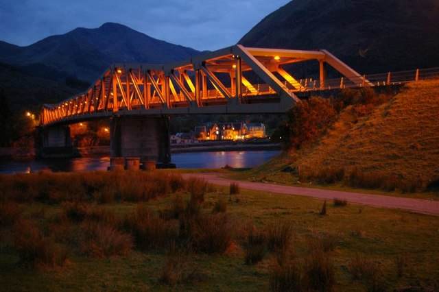 Dusk view of Ballachulish bridge The Ballachulish Hotel is framed between the bridge and the ground.